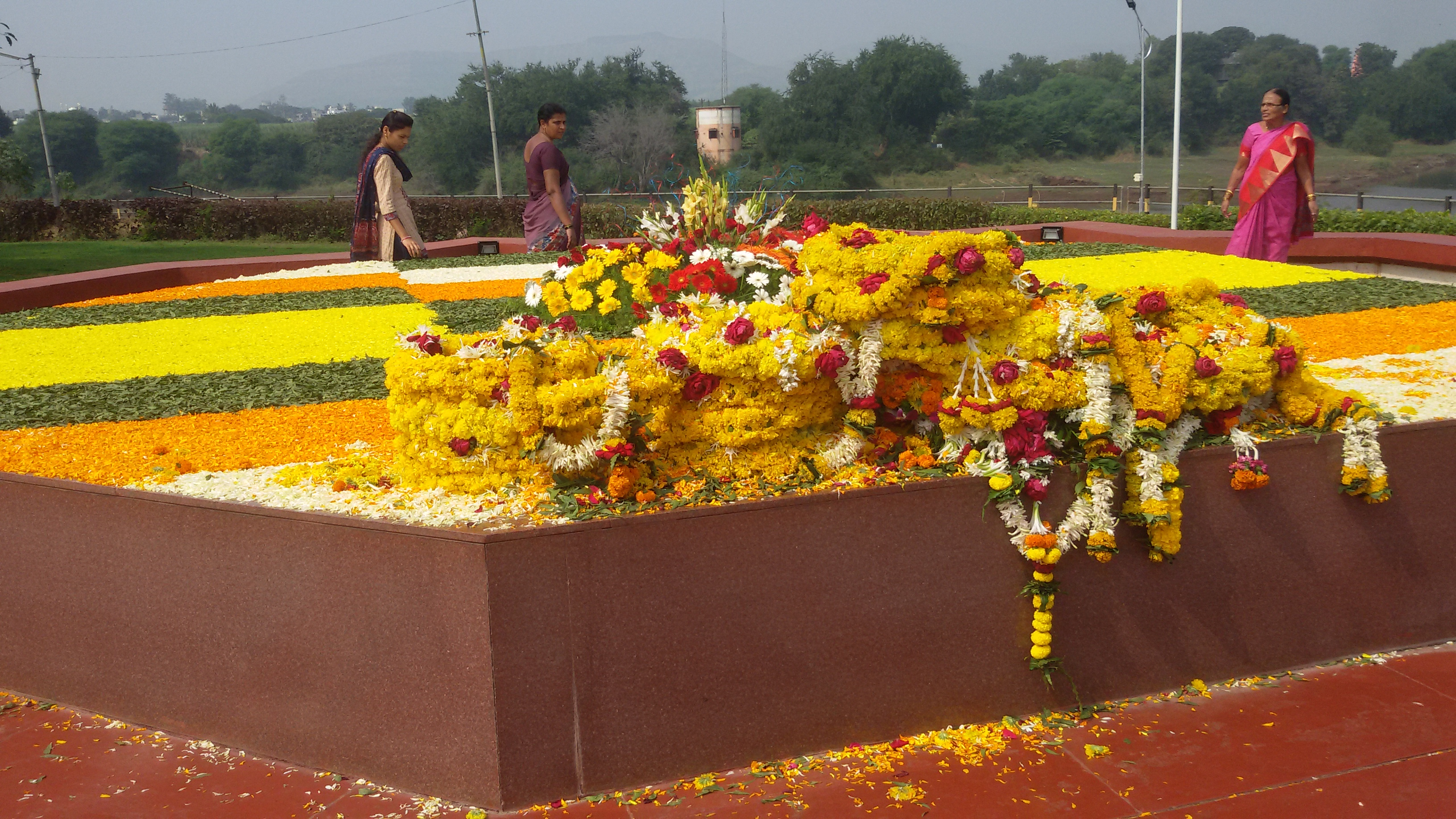 प्रिती संगम कराड